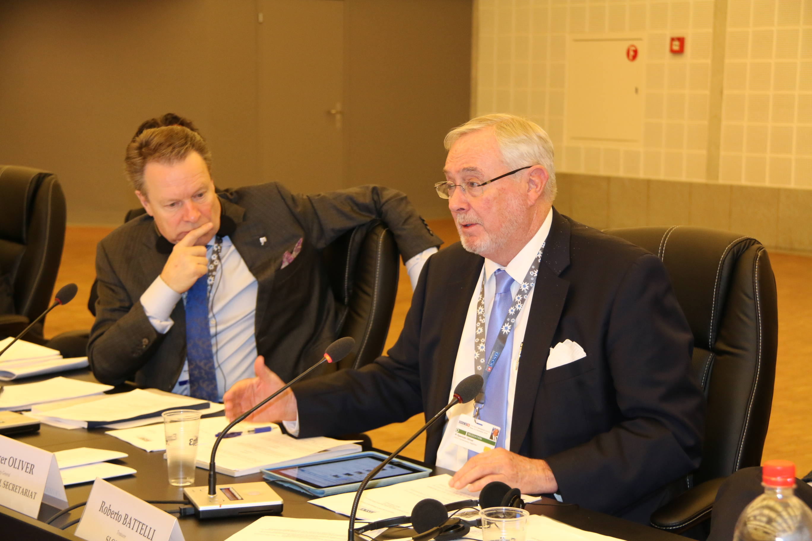 OSCE PA Secretary General Spencer Oliver addresses the Bureau